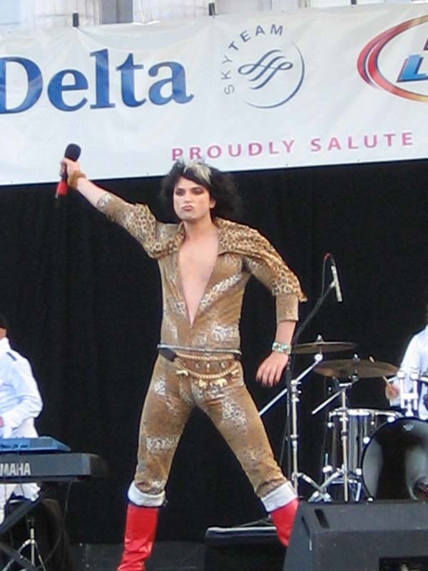 Ola Salo of The Ark in a leopard-print catsuit